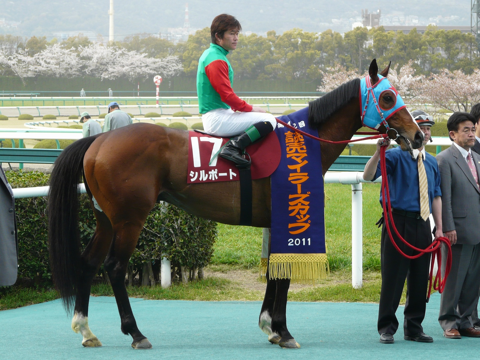 Silport20110417